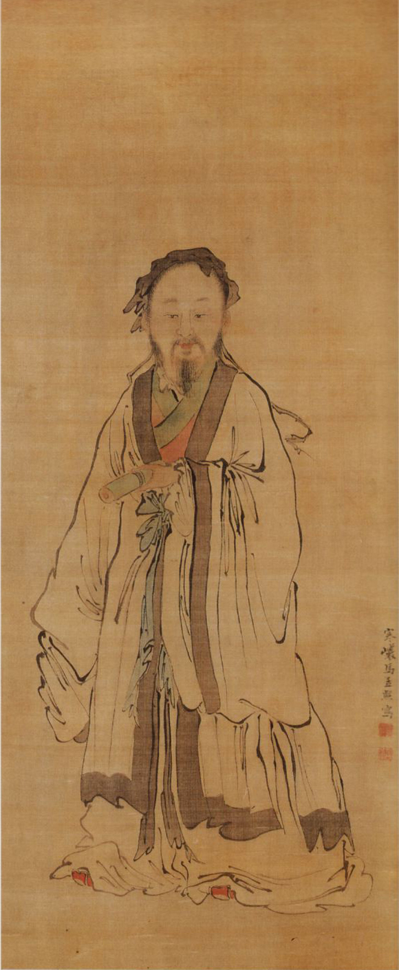 A_portrait_of_Lin_Fo 林和靖図 絹本着色